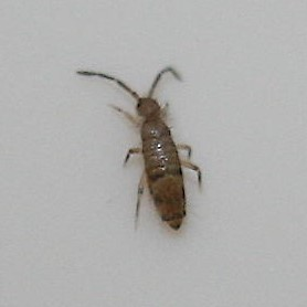 Springtail (Willowsia nigromaculata) in a bathroom in Portage, MI.